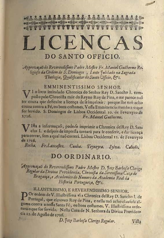 License of the Holy Office of the Inquisition to reprint the Chronicle of Sancho I in 1727